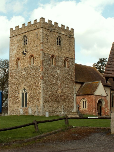 SS Peter and Thomas Becket parish church, Stambourne, Essex, seen from the south